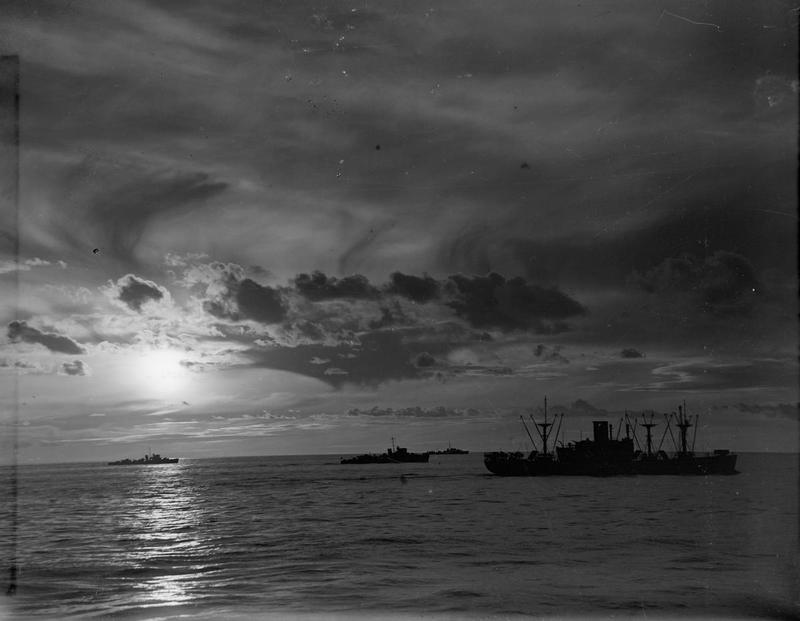 8th Army Victory Helps Malta- Convoys, Protected From Libyan Air Bases, Bring Enough Supplies For Months. 4 December 1942, in the Central Mediterranean, Aboard HMS Euryalus. A striking view of a Malta bound convoy and escort at sunset as seen from HMS EURYALUS, one of the escorting warships.